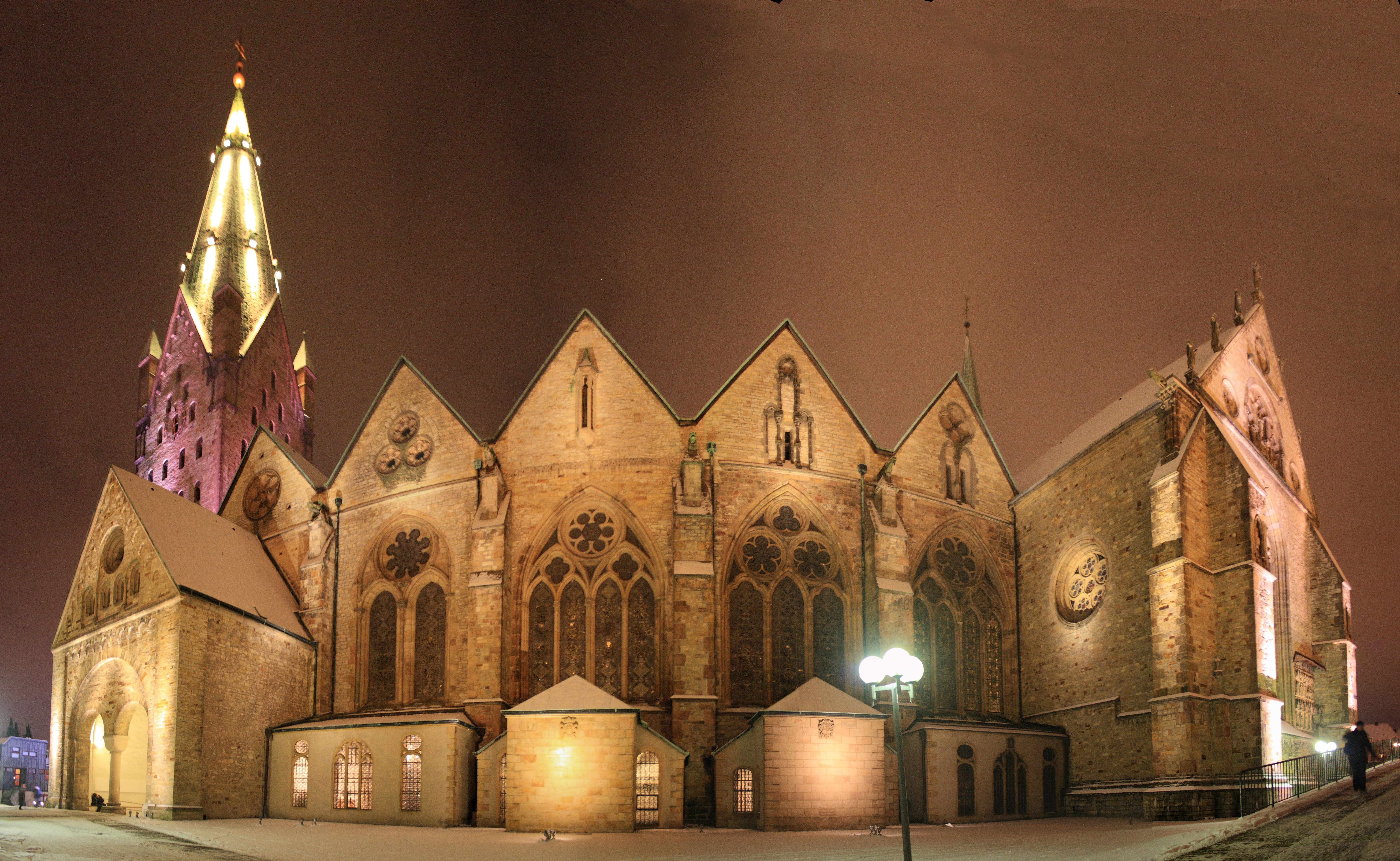 Panoramic view of Paderborn Cathedral in Paderborn, District of Paderborn, North Rhine-Westphalia, Germany at night